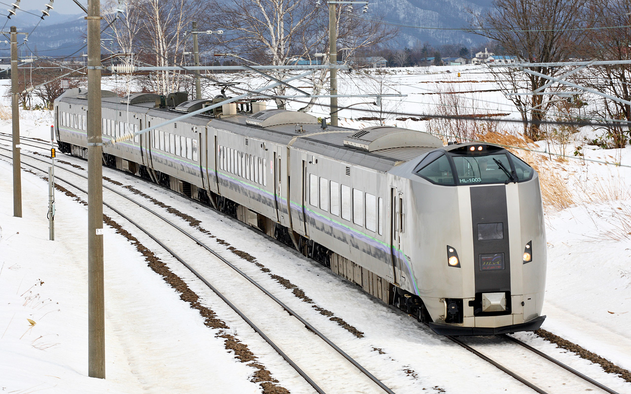 JR Hokkaido 789 series EMU Super Kamui / Airport ( 2018M / HL-1003F, Bibai Stn. - Koushunai Stn. )